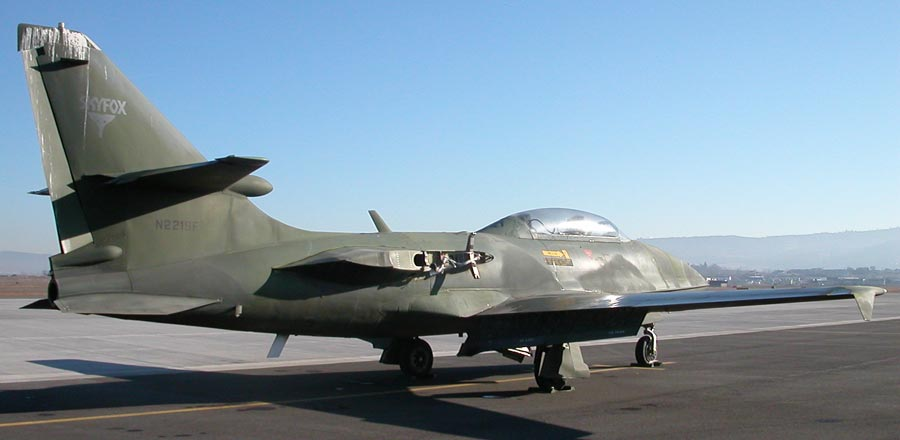 Tangobar, Feb 2007